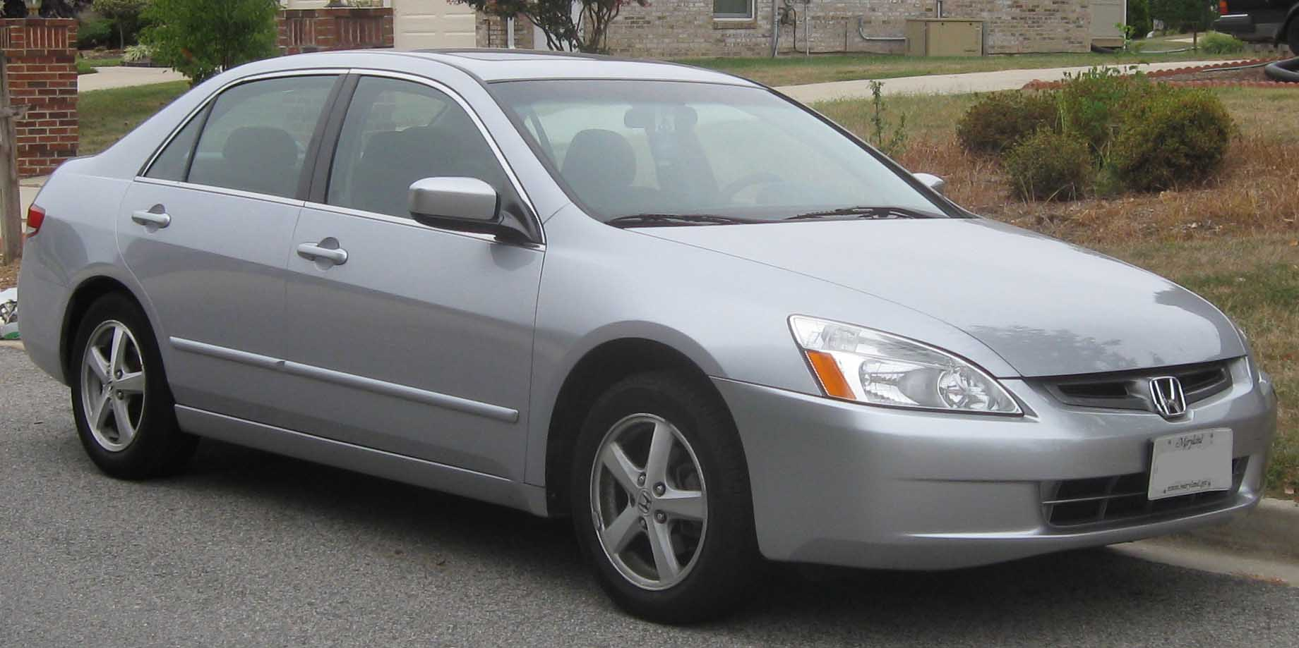 2003-2004 Honda Accord photographed in Fort Washington, Maryland, USA.